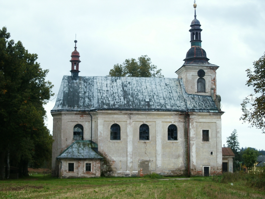 Fořt - Church of the Holy Trinity